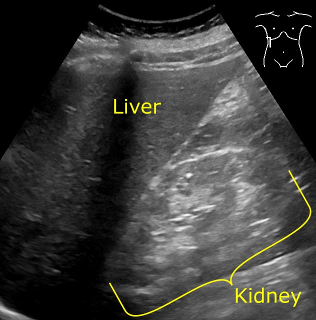 edit Abdominal ultrasonography of the liver and left kidney of a 76 year old woman with microalbuminuria and type 2 diabetes, in order to exclude other causes of the microalbuminuria. The kidney has normal thickness of the parenchyma (or substance), but it is hyperechogenic, since it normally has an echogenicity equal to the liver. This indicates a generalized kidney disease. A diagnosis of diabetic nephropathy was made. The dark band through the liver is an artifact due to shadowing from a rib.